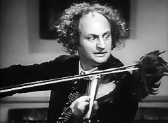 Frame of the actor and comedian Larry Fine from "Disorder in the Court" (1936), in public domain